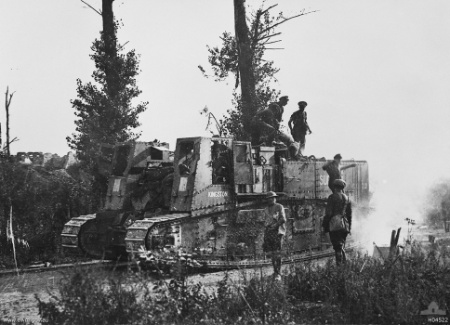 From AWM caption : France: Picardie, Somme, Albert Bapaume Area. British soldiers revictualling a Gun Carrier Mark 1 tank, named Kingston, at Miraumont.